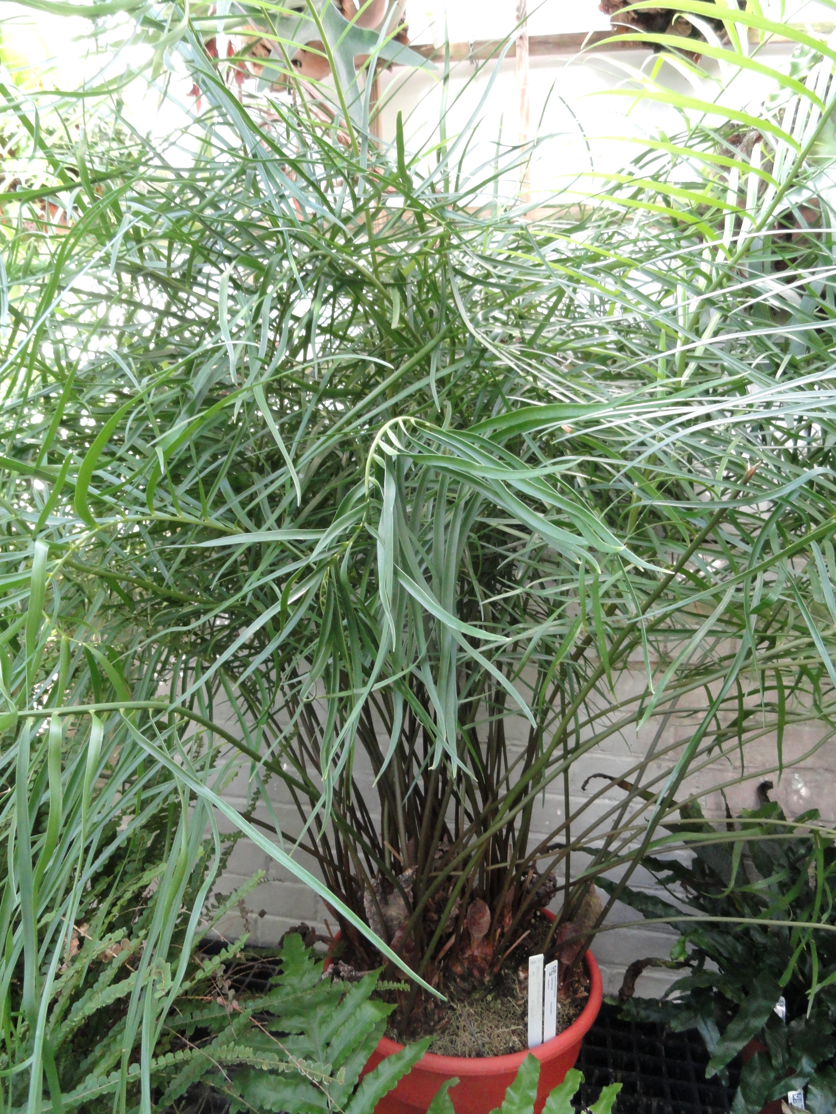 Botanical specimen in the Lyman Plant House, Smith College, Northampton, Massachusetts, USA.